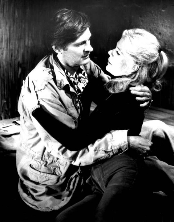 Publicity photo of Alan Alda and Loretta Swit from the television program M*A*S*H.